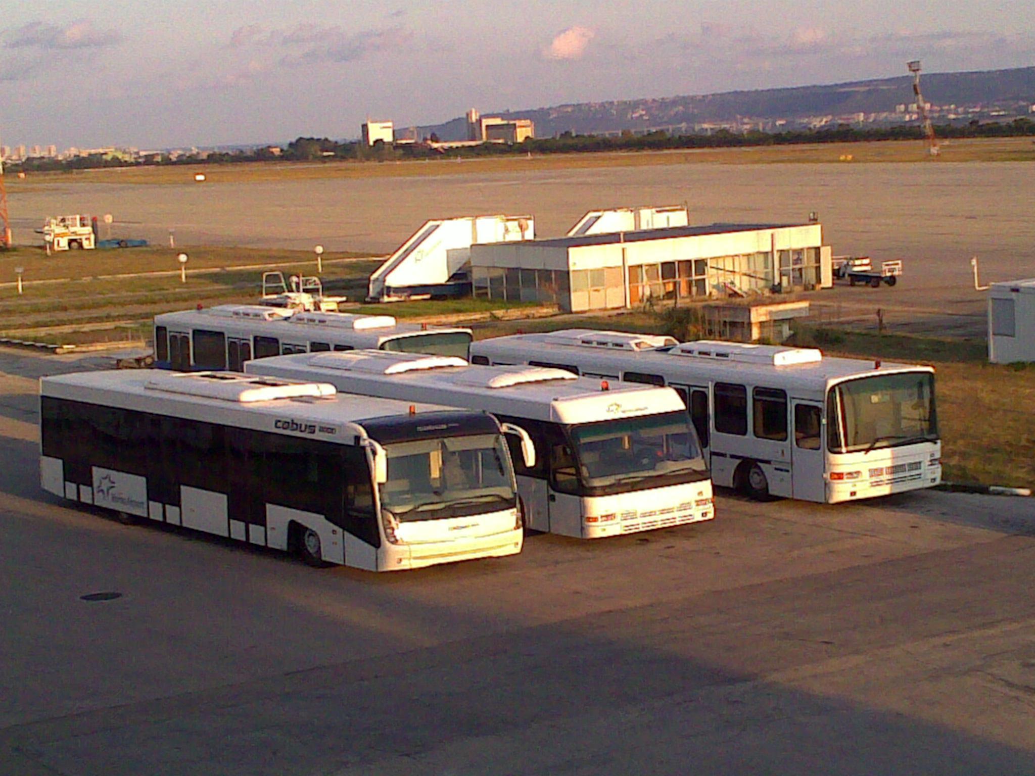 Varna Airport in Bulgaria. Contrac Cobus 3000 airport bus and other buses.